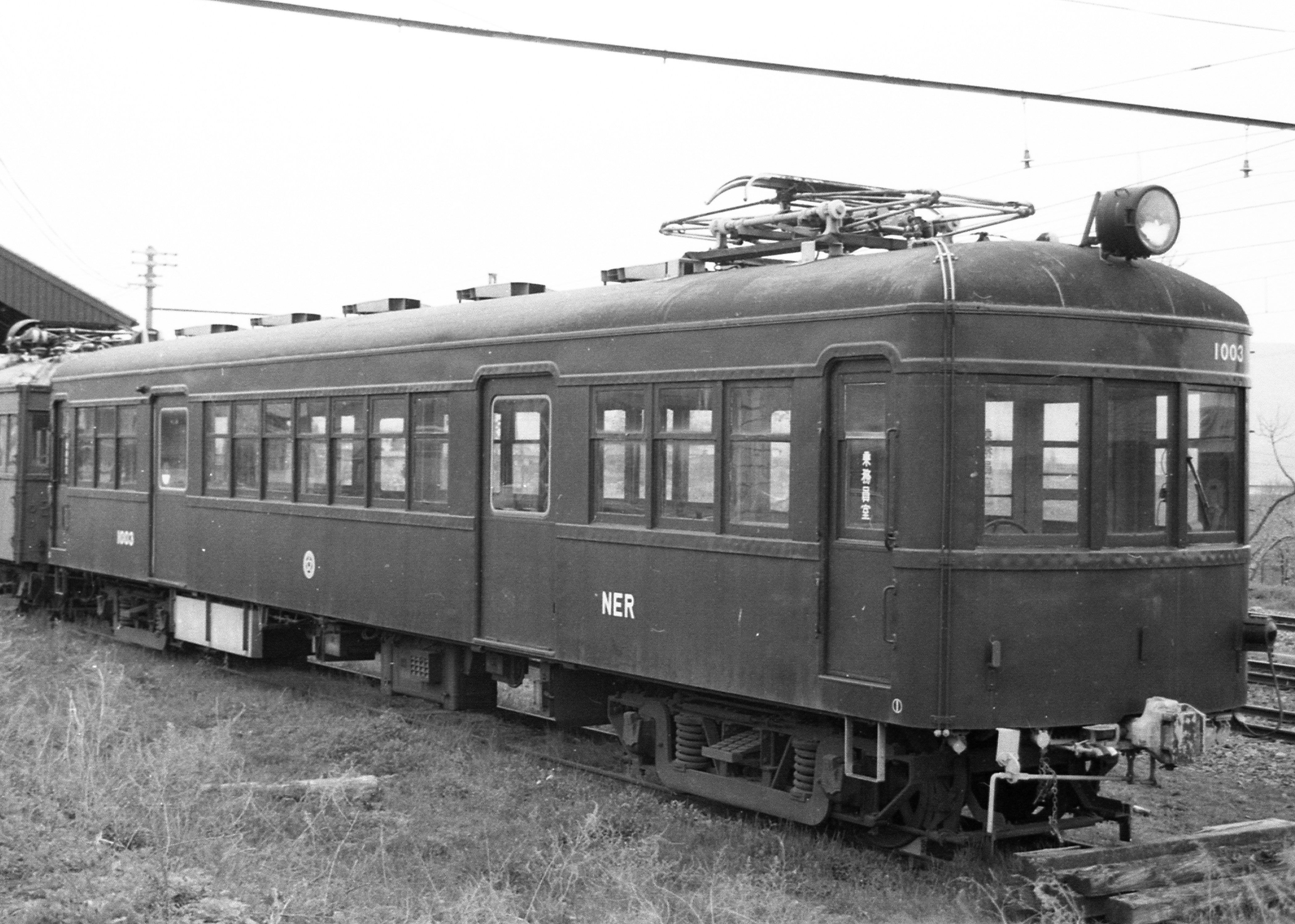 Nagaden Deha 1003 at Obuse